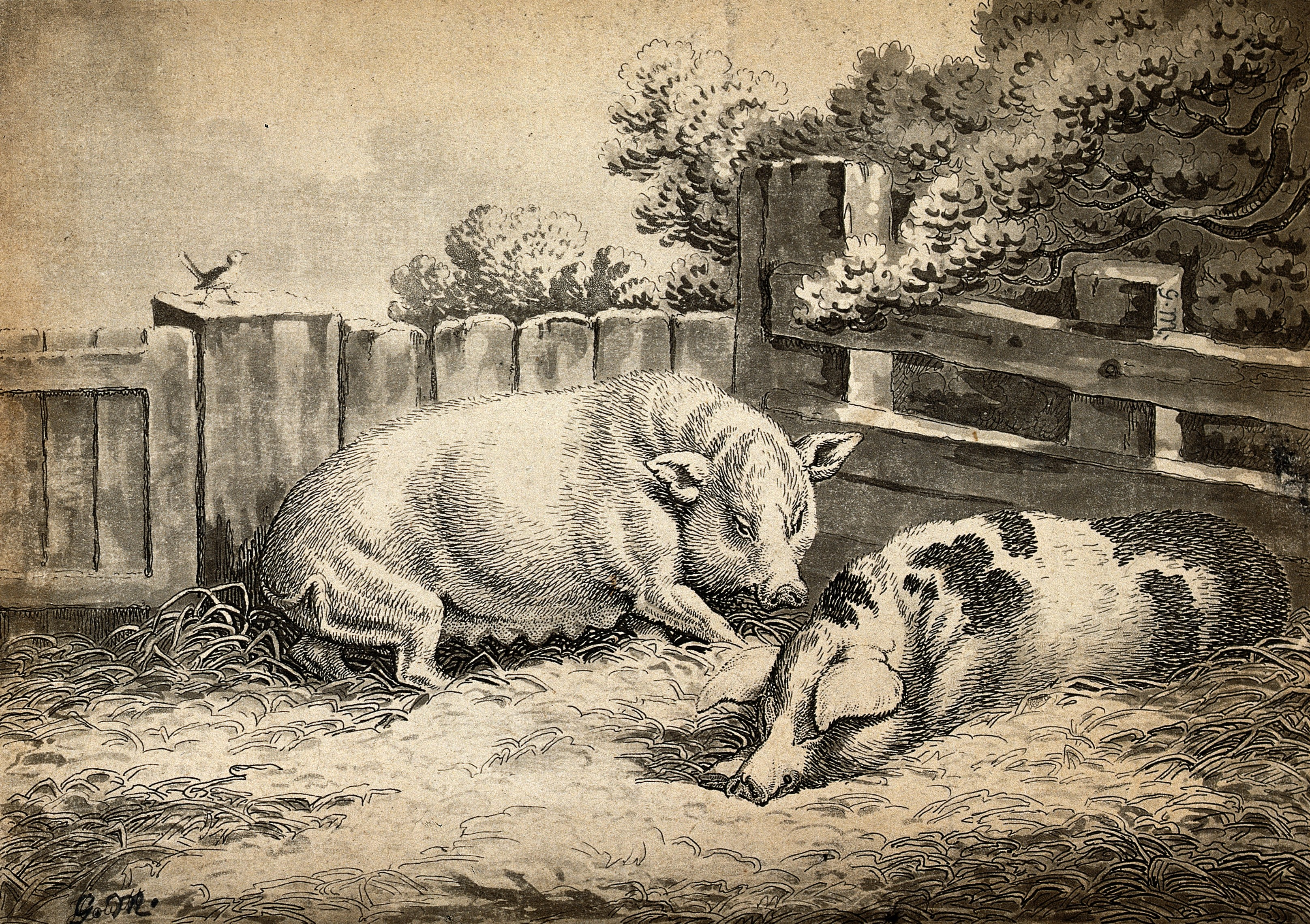 Two pigs lying in straw in an outdoor pen. Etching with aquatint and grey wash after G. Morland(?) Iconographic Collections Keywords: George Morland